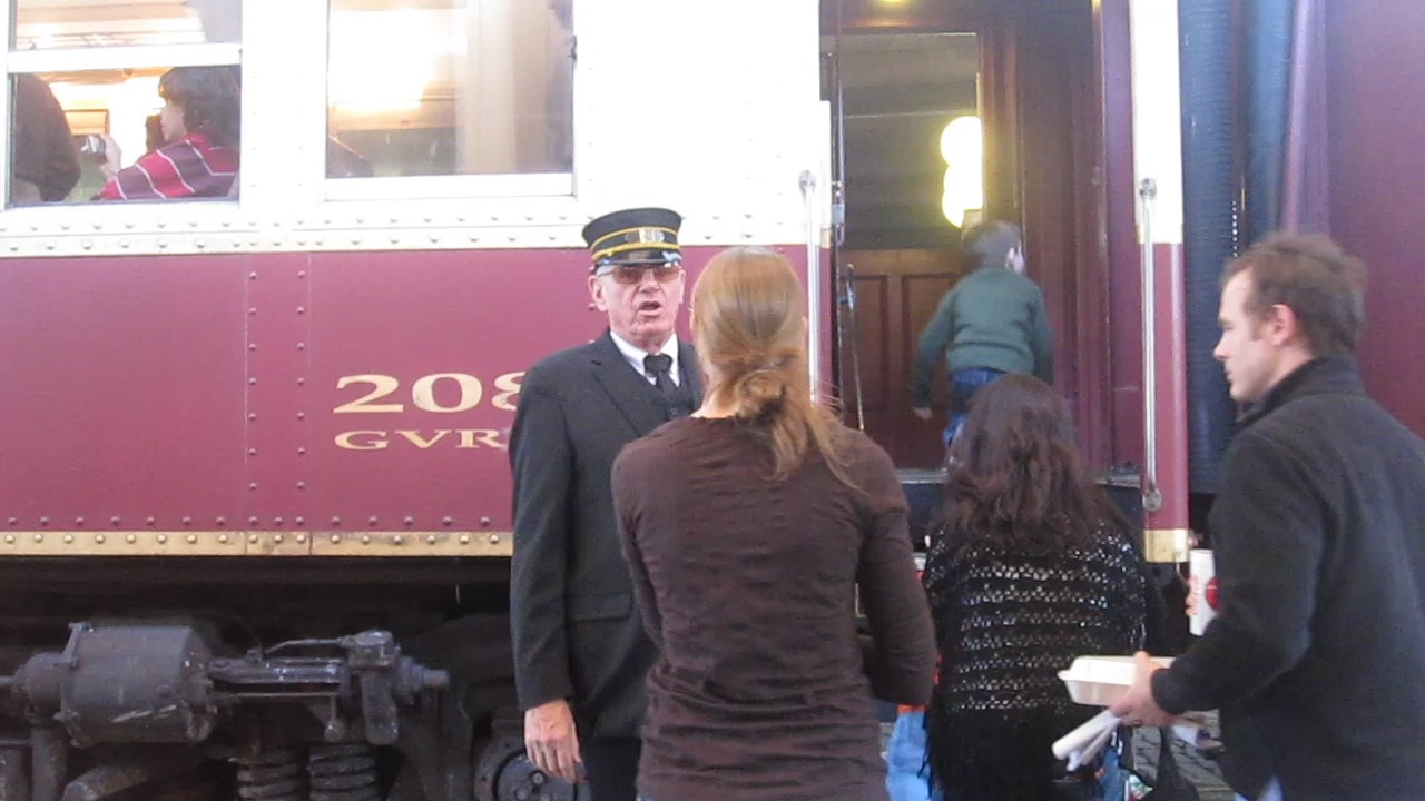 I took photo of this stop of the Grapevine Railroad in the Fort Worth Stockyards